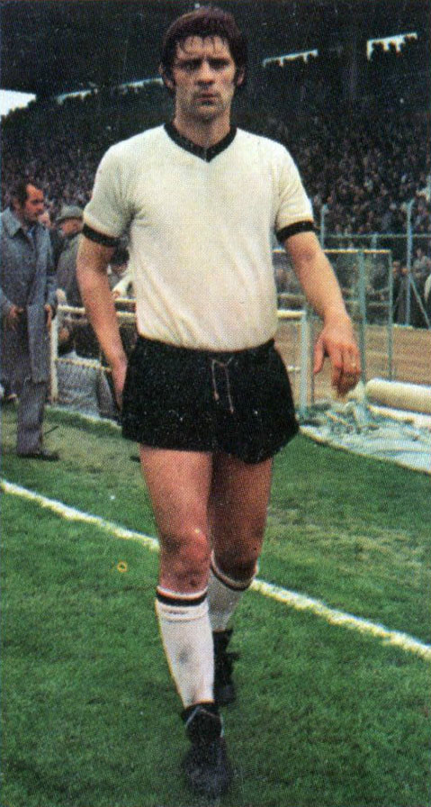 Italian footballer Giuseppe Zaniboni with A.C. Cesena in the 1974–75 season.